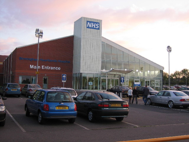 Heartlands Hospital, Bordesley Green. This is one of the newest blocks of this large hospital.